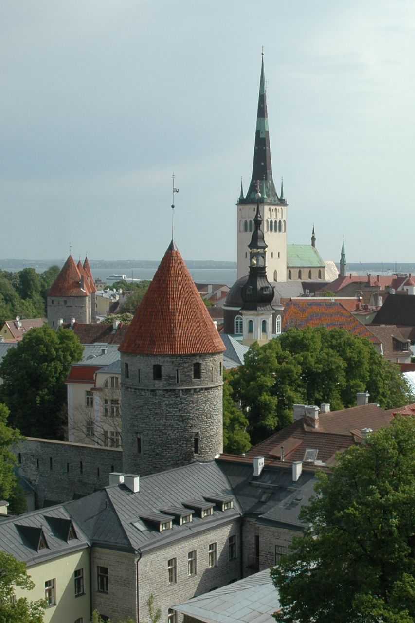 St Olaf's church in Tallinn